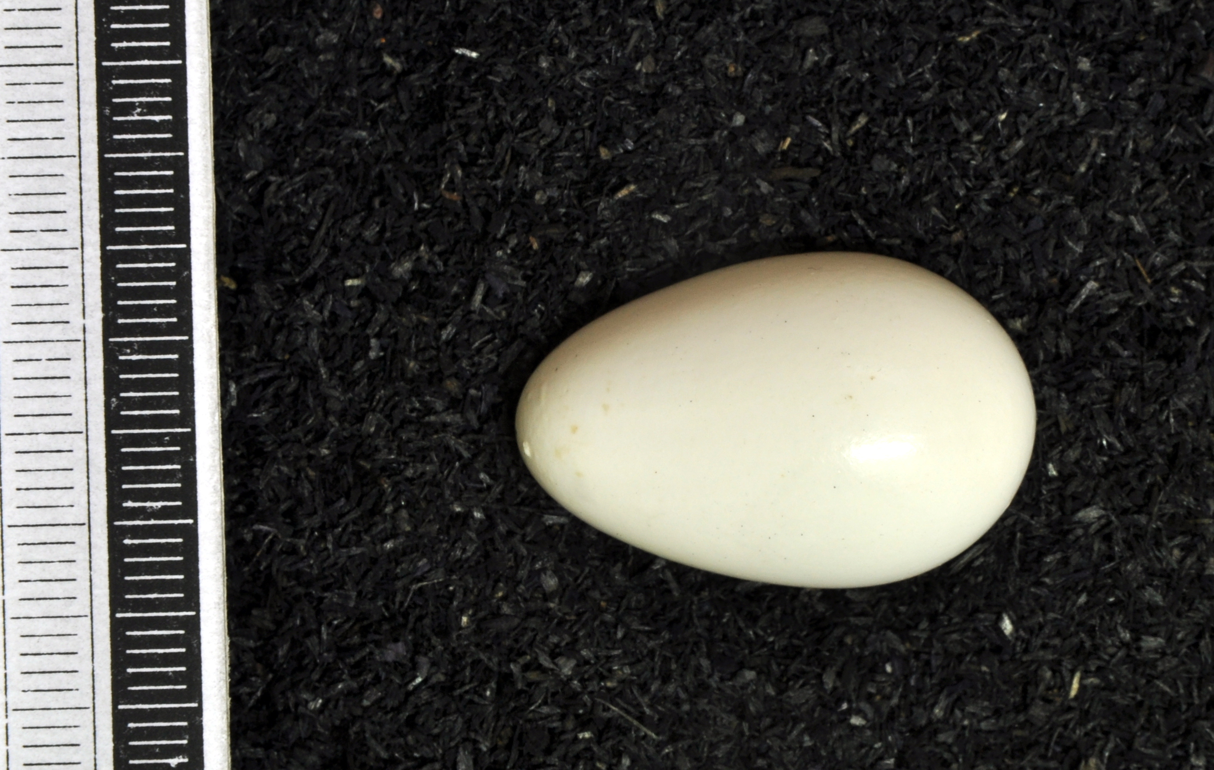 White-backed woodpecker Dendrocopos leucotos , egg, Coll. Museum Wiesbaden